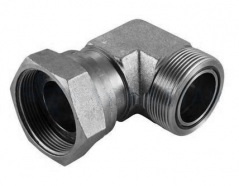 ORFS coupling in steel, Male/Female 90° angle.